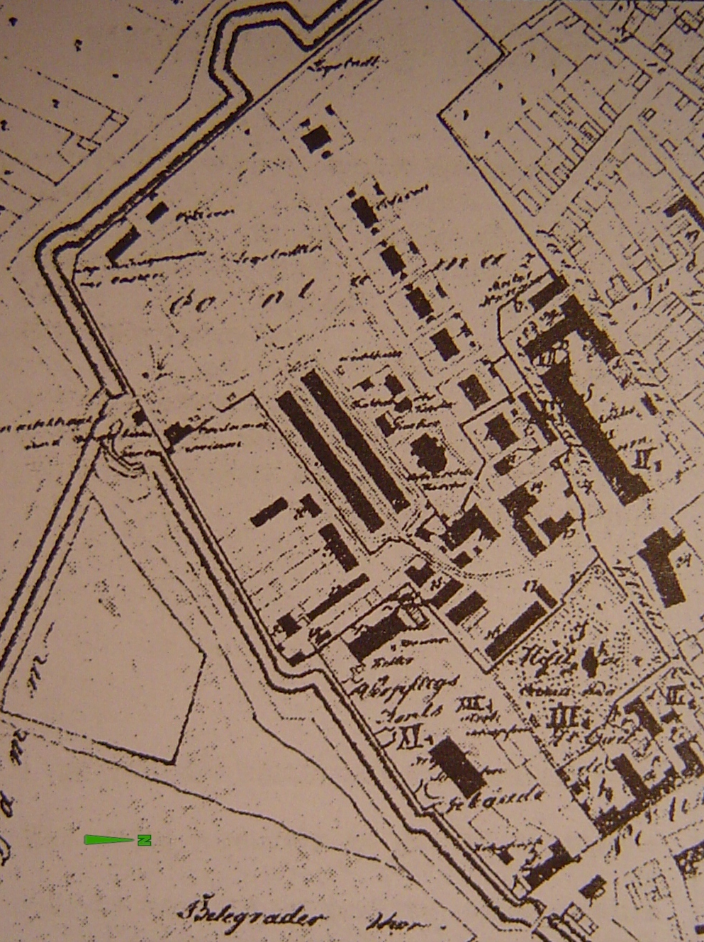 Zemun Contumaz layout in 1830, by L. Berthold.